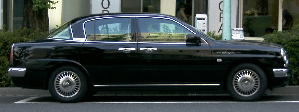 “Toyota Origin” ToyotaOrigin,releases it in November, 2000 Japan